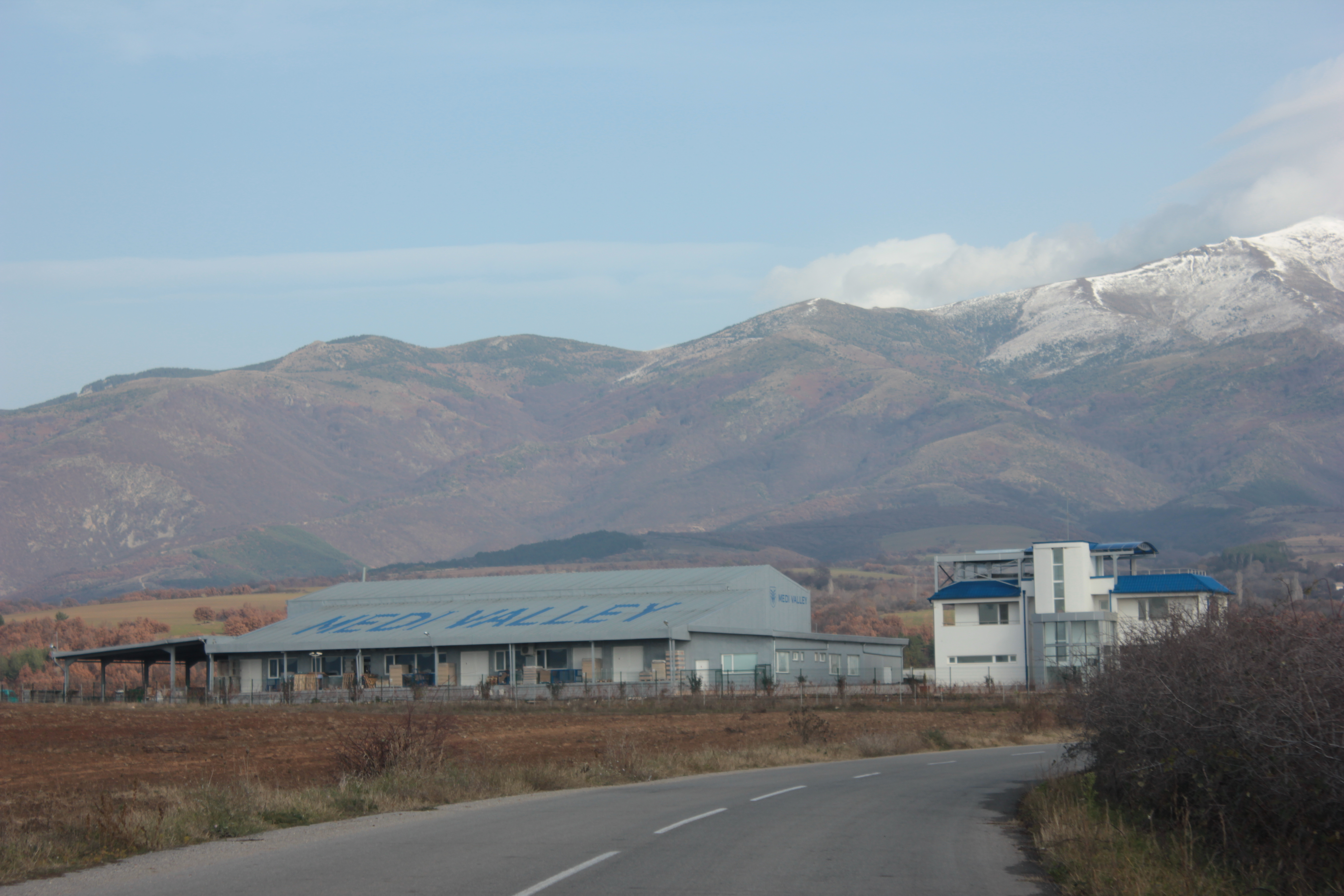 Medi Valley Winery